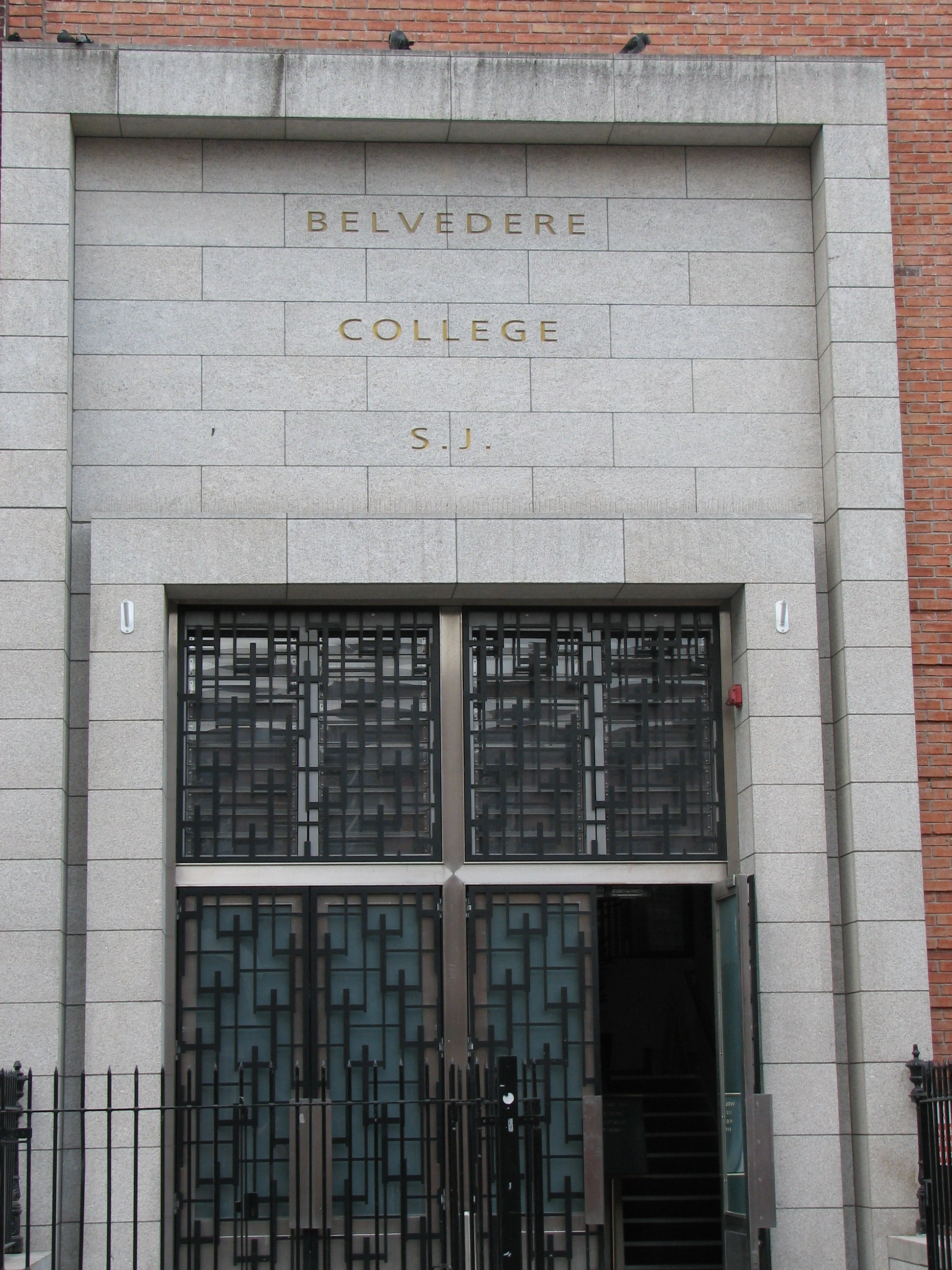 Belevedere College, were Kevin Barry attended school. [1]